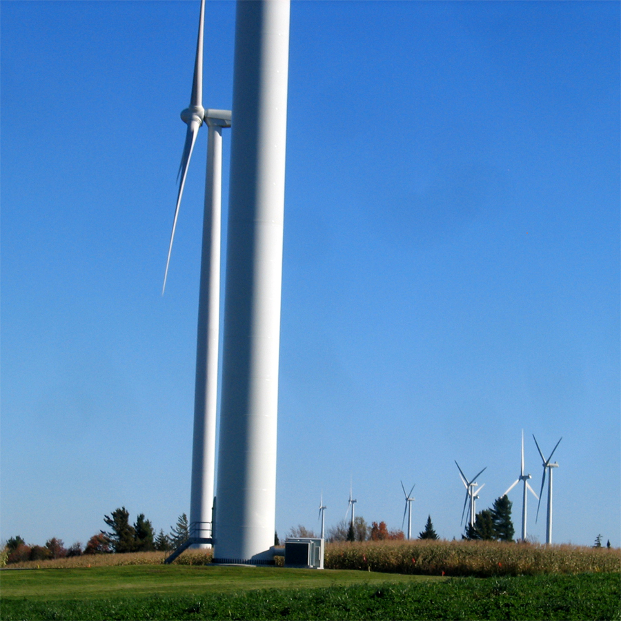 Photo 10/7/2006 by DESIGNMAKERCOM - Vestas wind turbines at Maple Ridge Wind Farm near Lowville, NY.